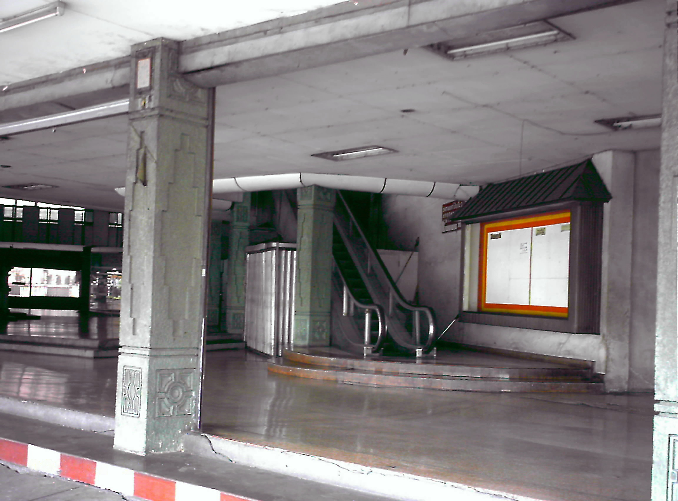 Lobby, Rama Theatre Building, Rama 4 Road, Bangkok, Thailand 中文（香港）: 泰國，曼谷，拍喃四路，拉瑪戲院的大堂。